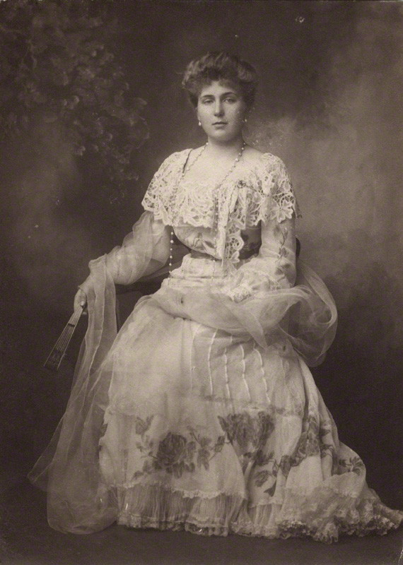 Porträt of Victoria Eugenie ('Ena') of Battenberg, Queen of Spain